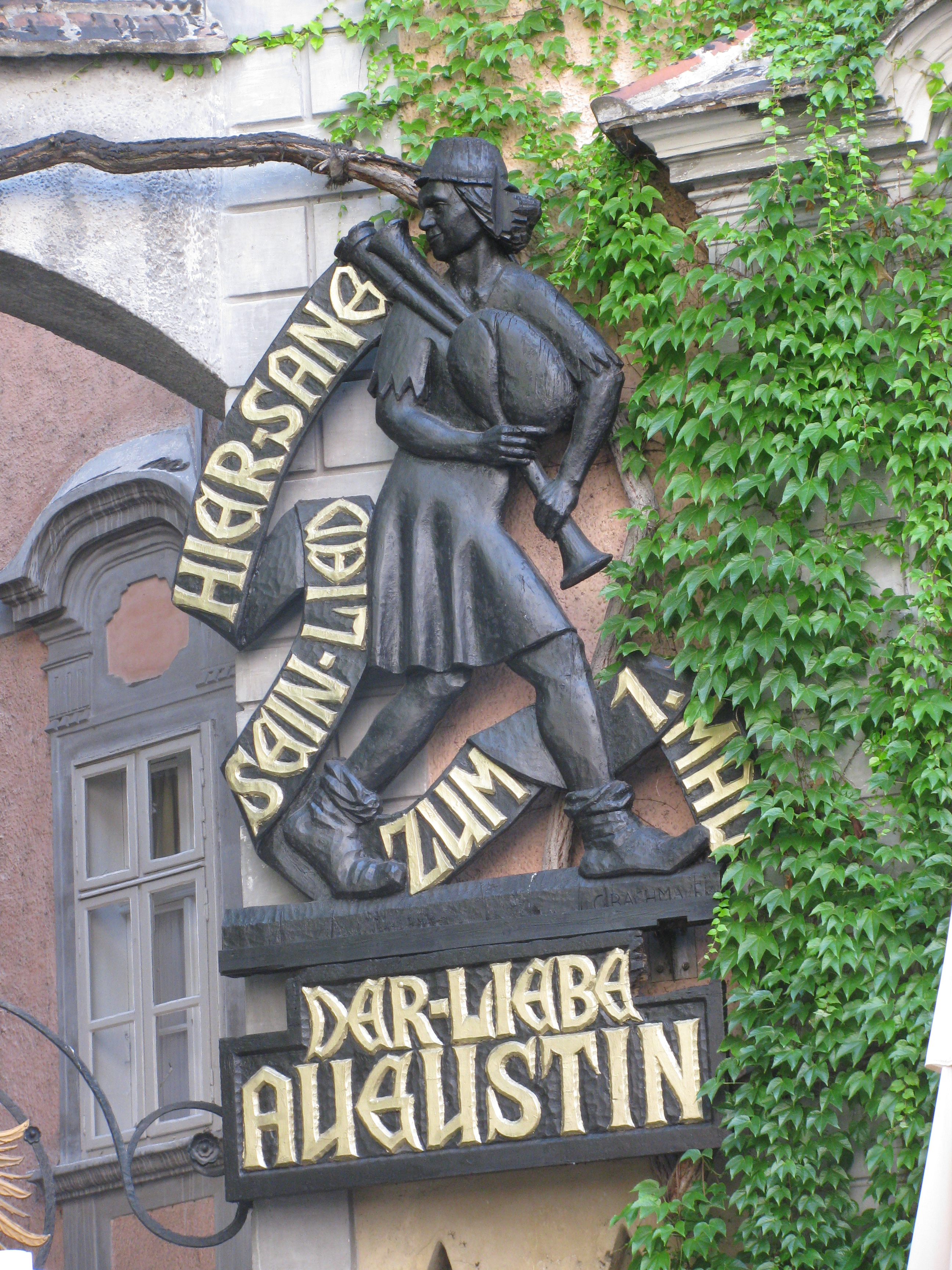 Memorial of the "Lieber Augustin", a singer, on the Griechenbeisl in Vienna